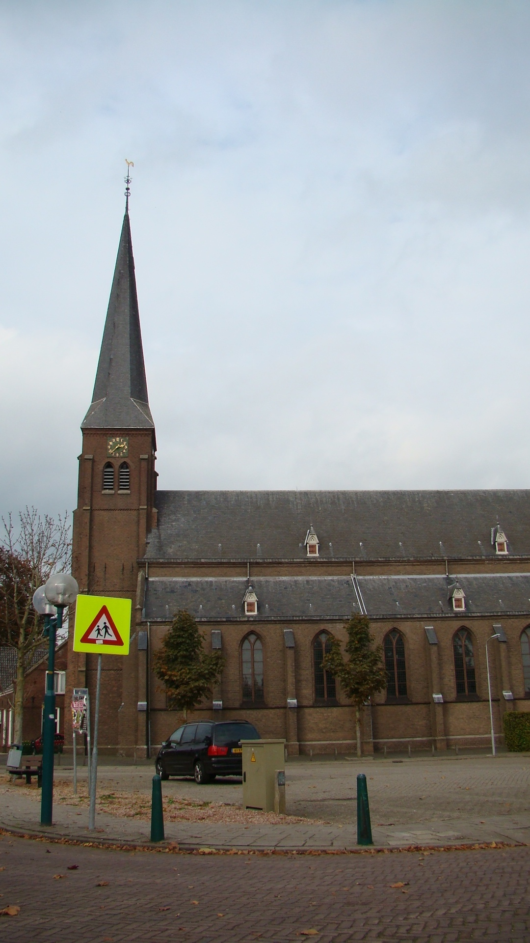 church of Harreveld